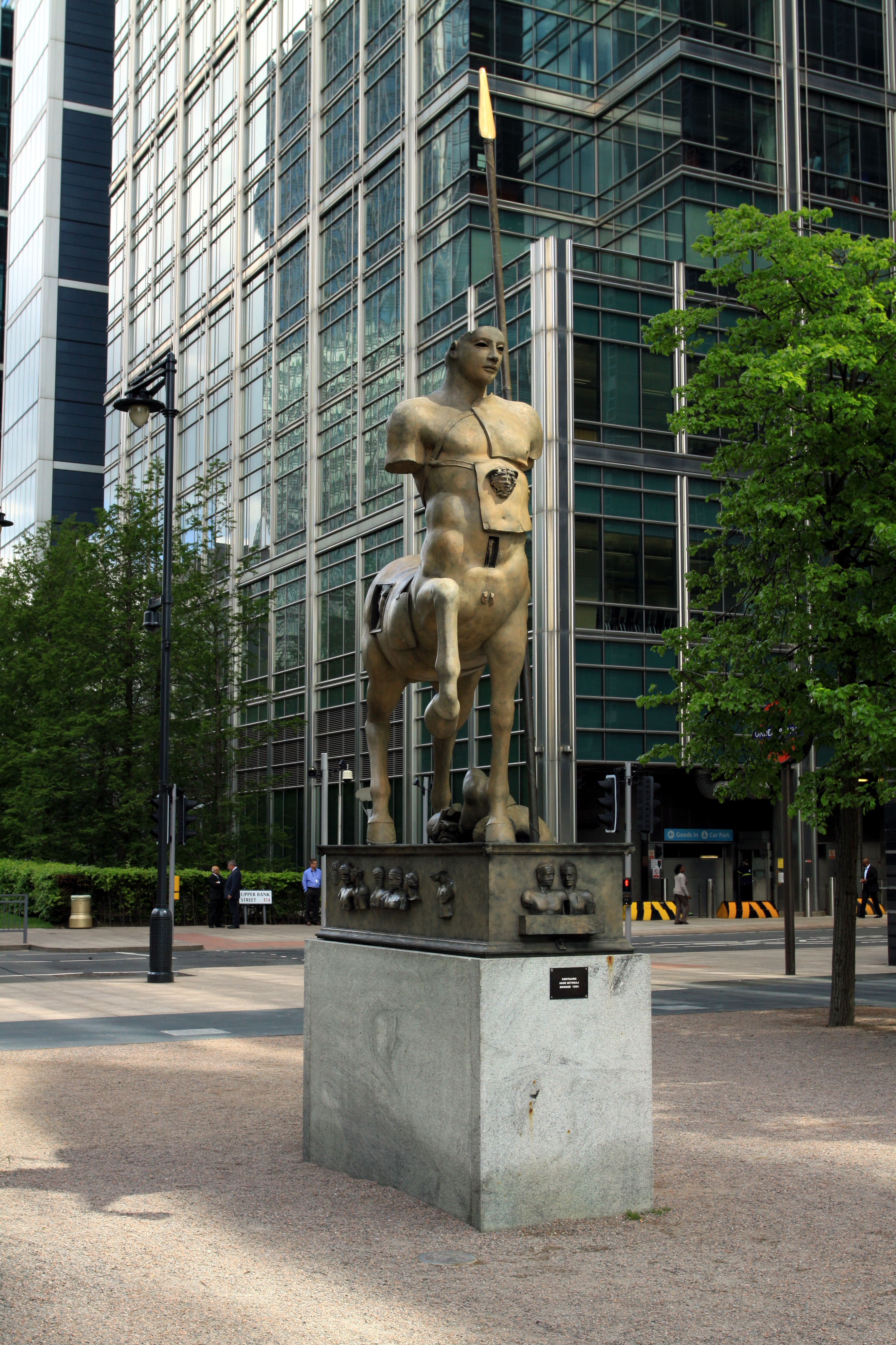 Sculpture Centauro by Igor Mitoraj in the Canary Wharf, London Borough of Tower Hamlets, London, England, Great Britain The making of this file was supported by Wikimedia UK.